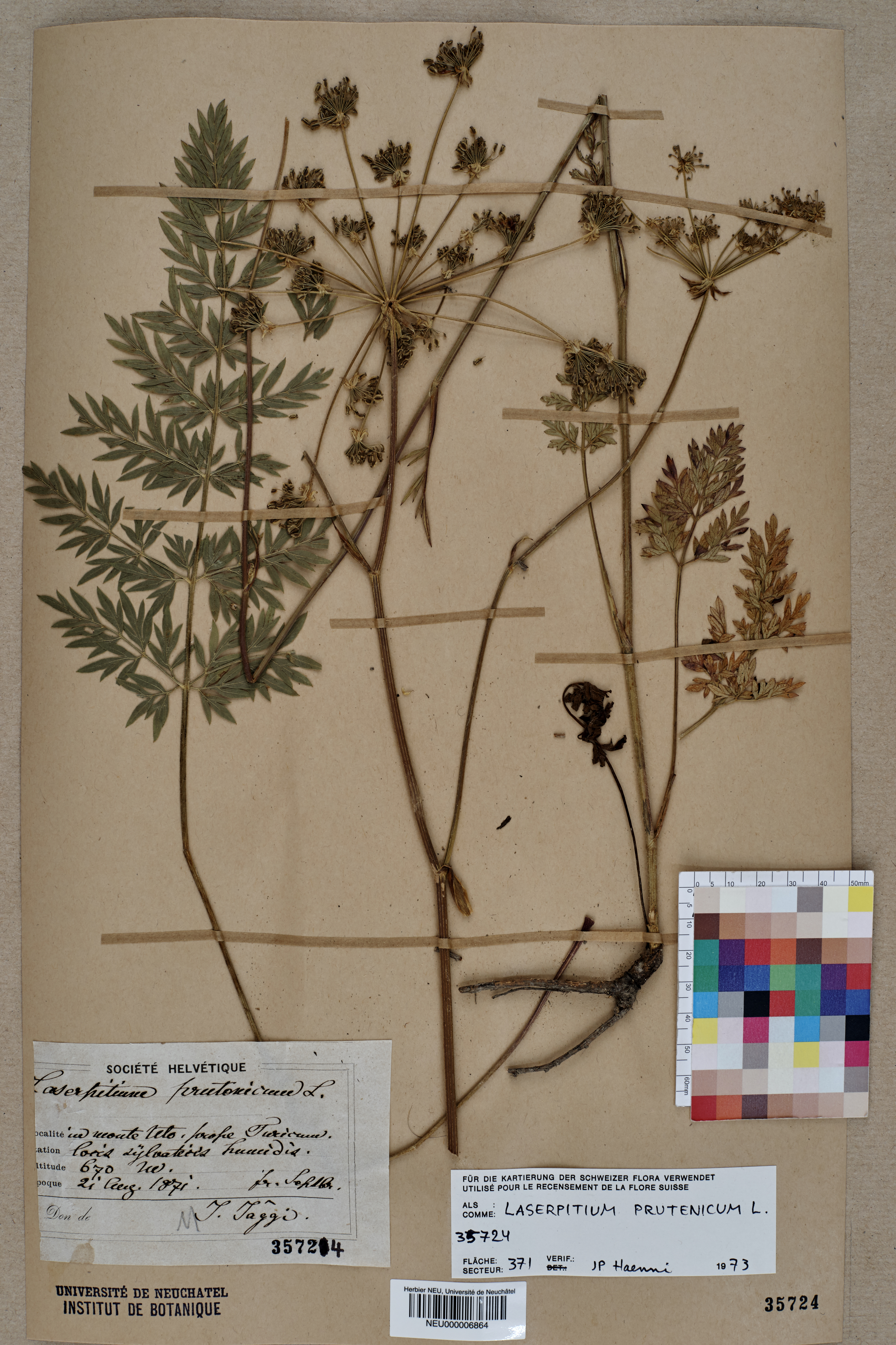 Dried pressed specimen of Laserpitium prutenicum